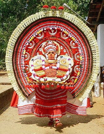 Scanned image of the picture of Rakthachamundi Theyyam